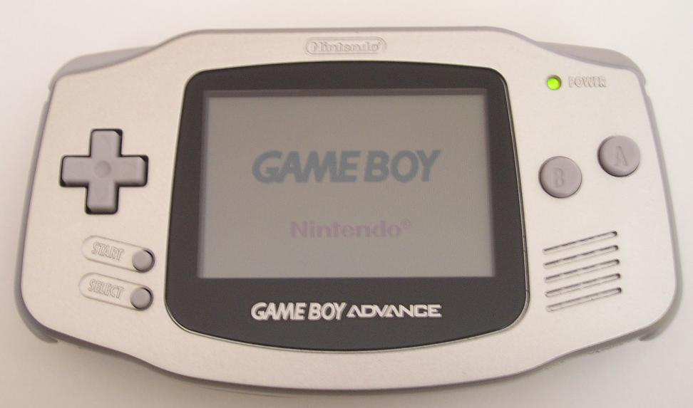 Game Boy Advance "Limited Edition Platinum" with GBA game running.